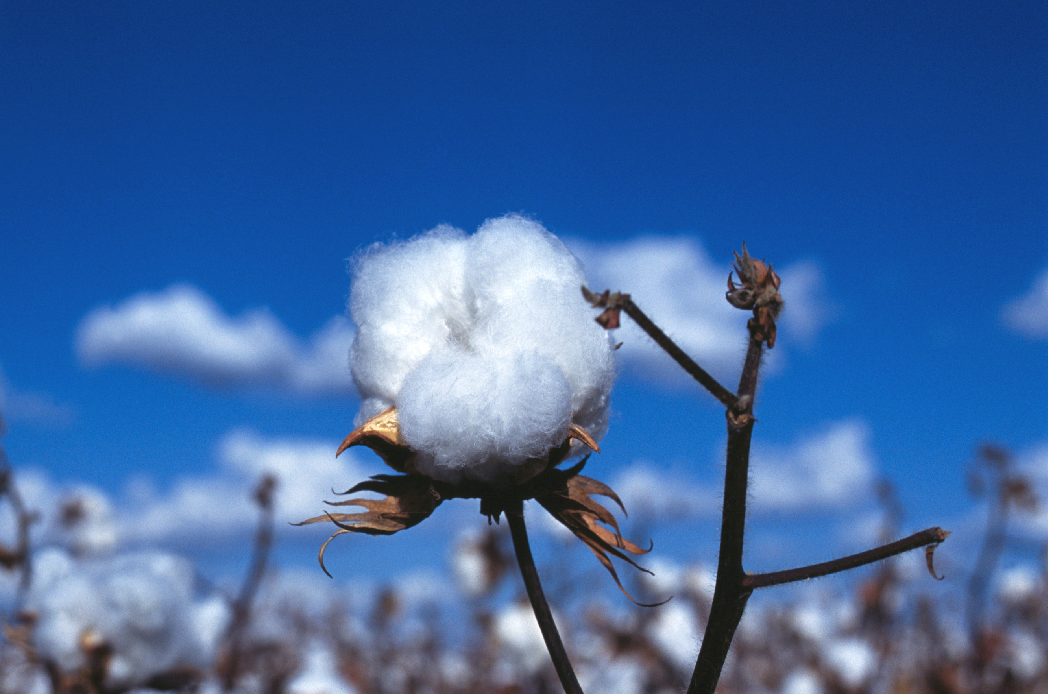 Cotton boll in field